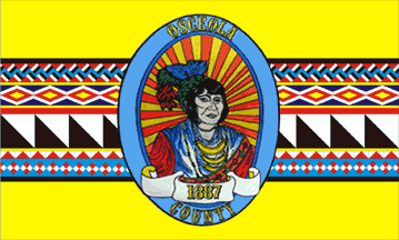 The official flag of Osceola County, Florida, designed by J. Luann Griffin.